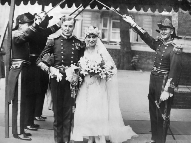 Original Press Photo